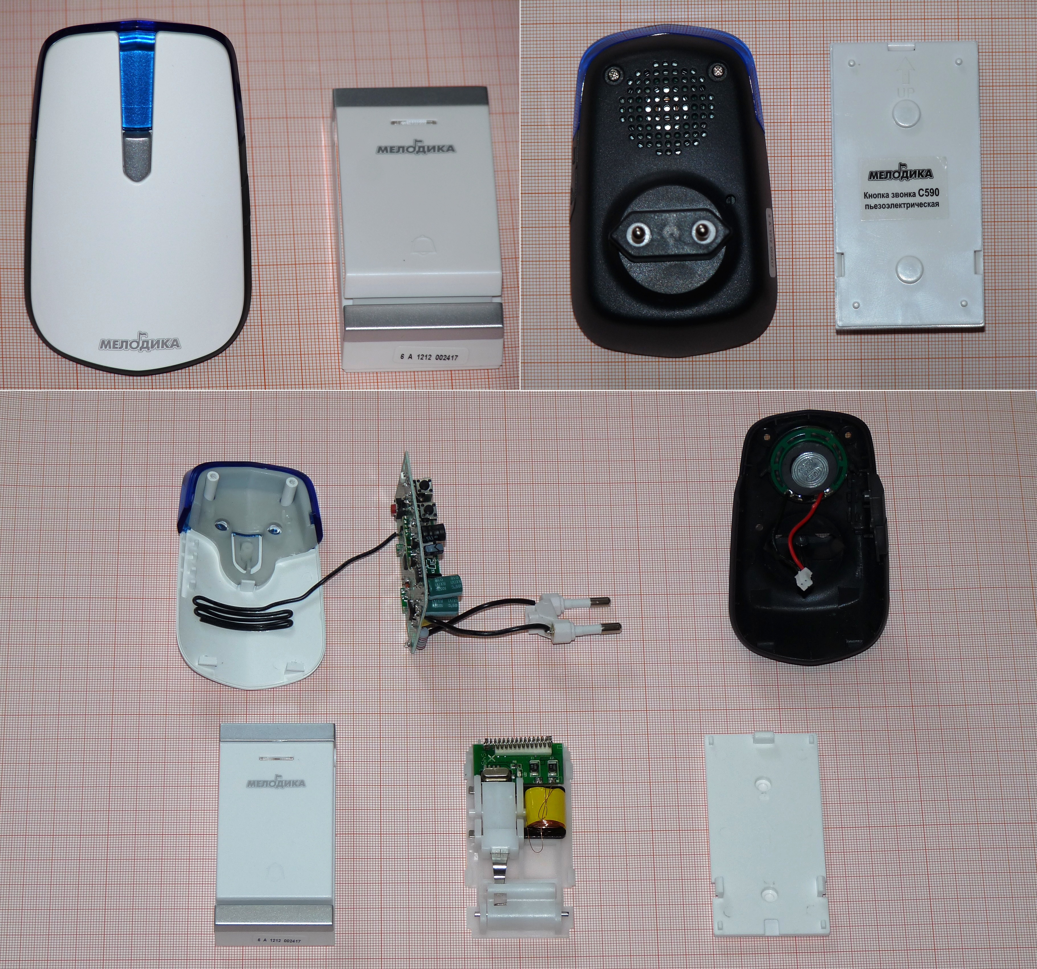 Electric doorbell with self-powered button